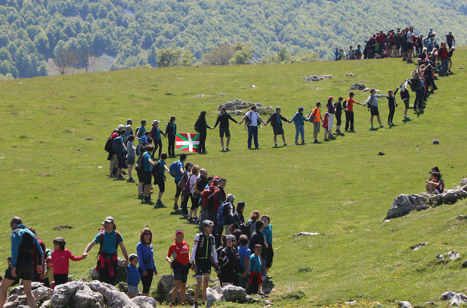 Human Chain for The Right To Decide of the Basque Country in Urbia mountain. Gipuzkoa, Basque Country.